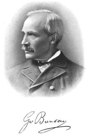 Dr Georg Bunsen from the frontispiece of his 1900 biography by his daughter Marie von Bunsen: "Georg Von Bunsen: Ein Charakterbild Aus Dem Lager Der Besiegten, Berlin: Wilhelm Hertz"